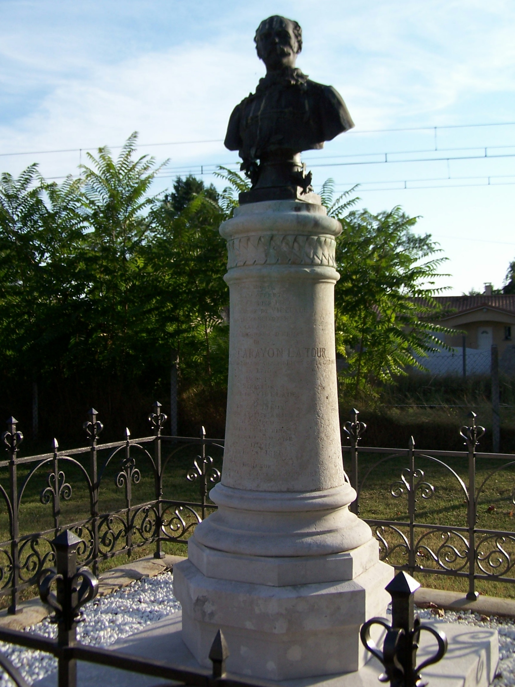 Bust of Joseph Carayon-Latour in Virelade (Gironde, France)